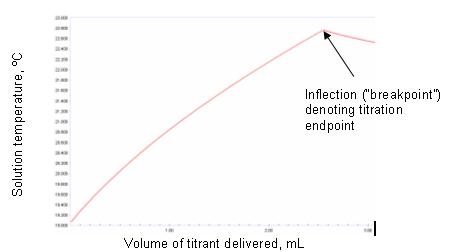 I am the originator of this image I am the originator of this image